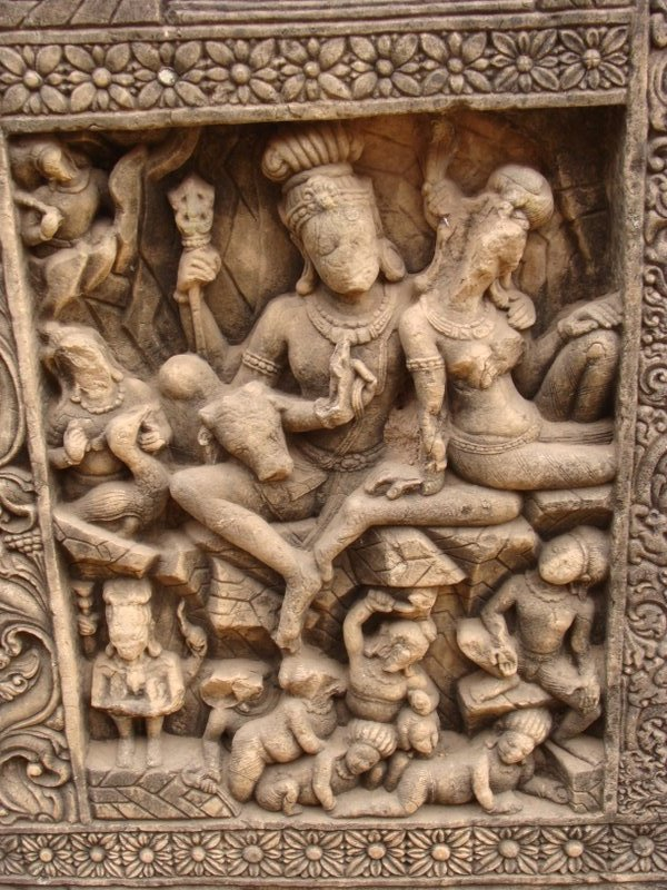 Carving on a 10 or 11th century hindu temple in Malhar village, Bilsapur, Chhattisgarh, India. Malhar was supposedly a major Buddhist center in ancient times and here existed a big institute for teaching Buddhism.